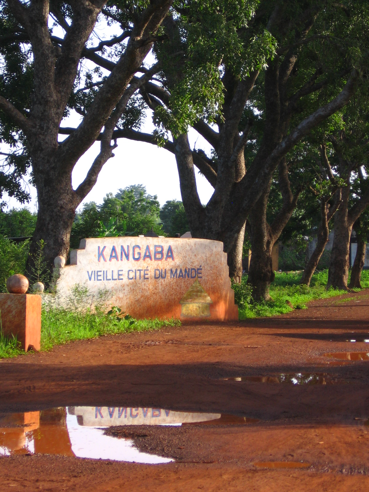 A sign at the entrance of the town of Kangaba in southern Mali.